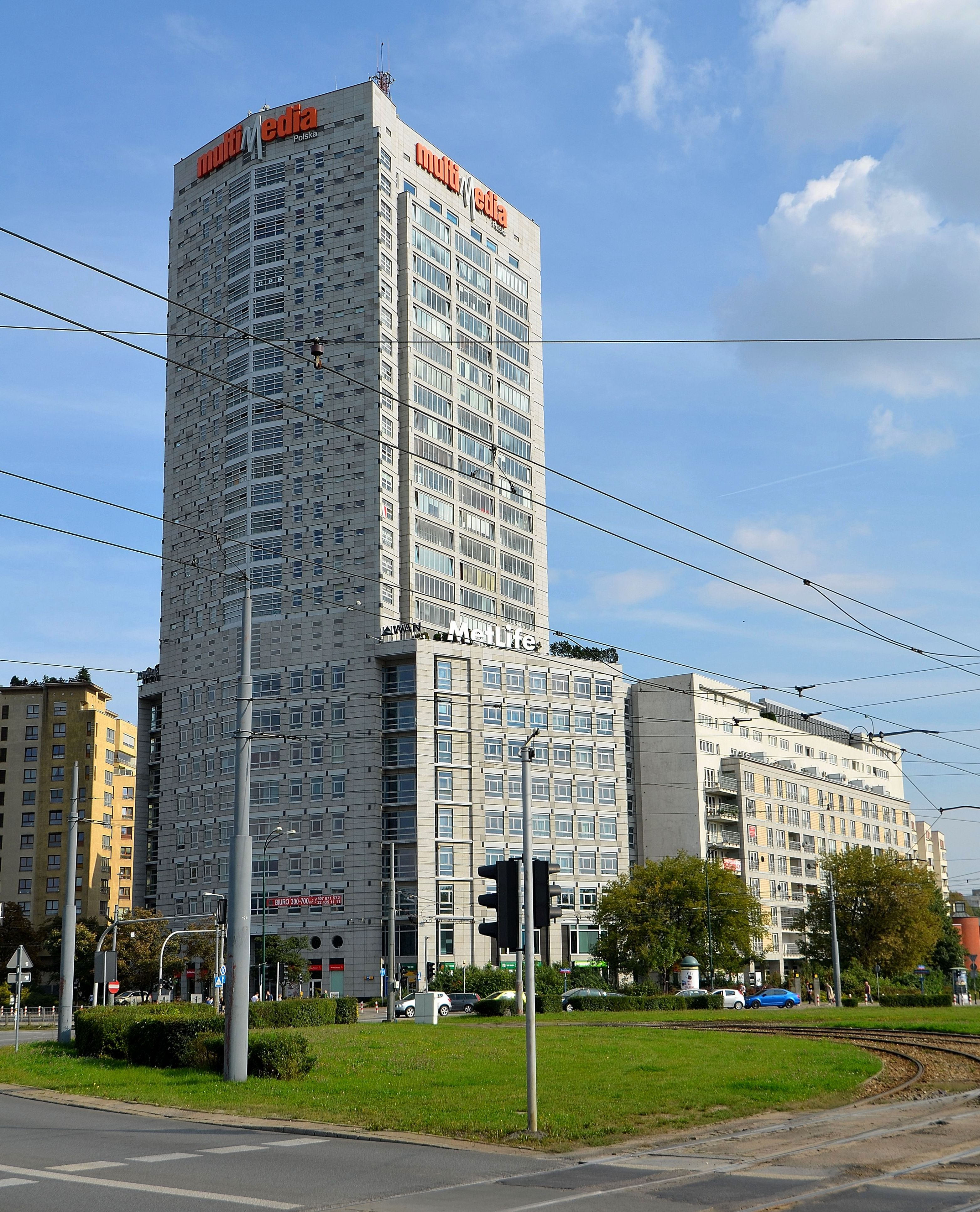 Babka Tower in Warsaw